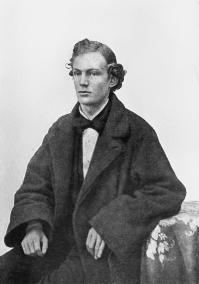 Portrait of Walter Bache as a student at the University of Leipzig